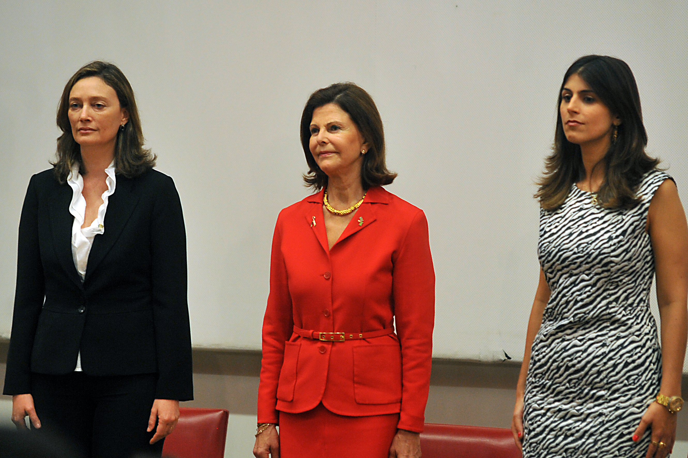 From left to right: Maria do Rosário (Secretary for Human Rights of Brazil), Queen Silvia of Sweden and Manuela d`Ávila (Federal deputy for Rio Grande do Sul) in Brasília.